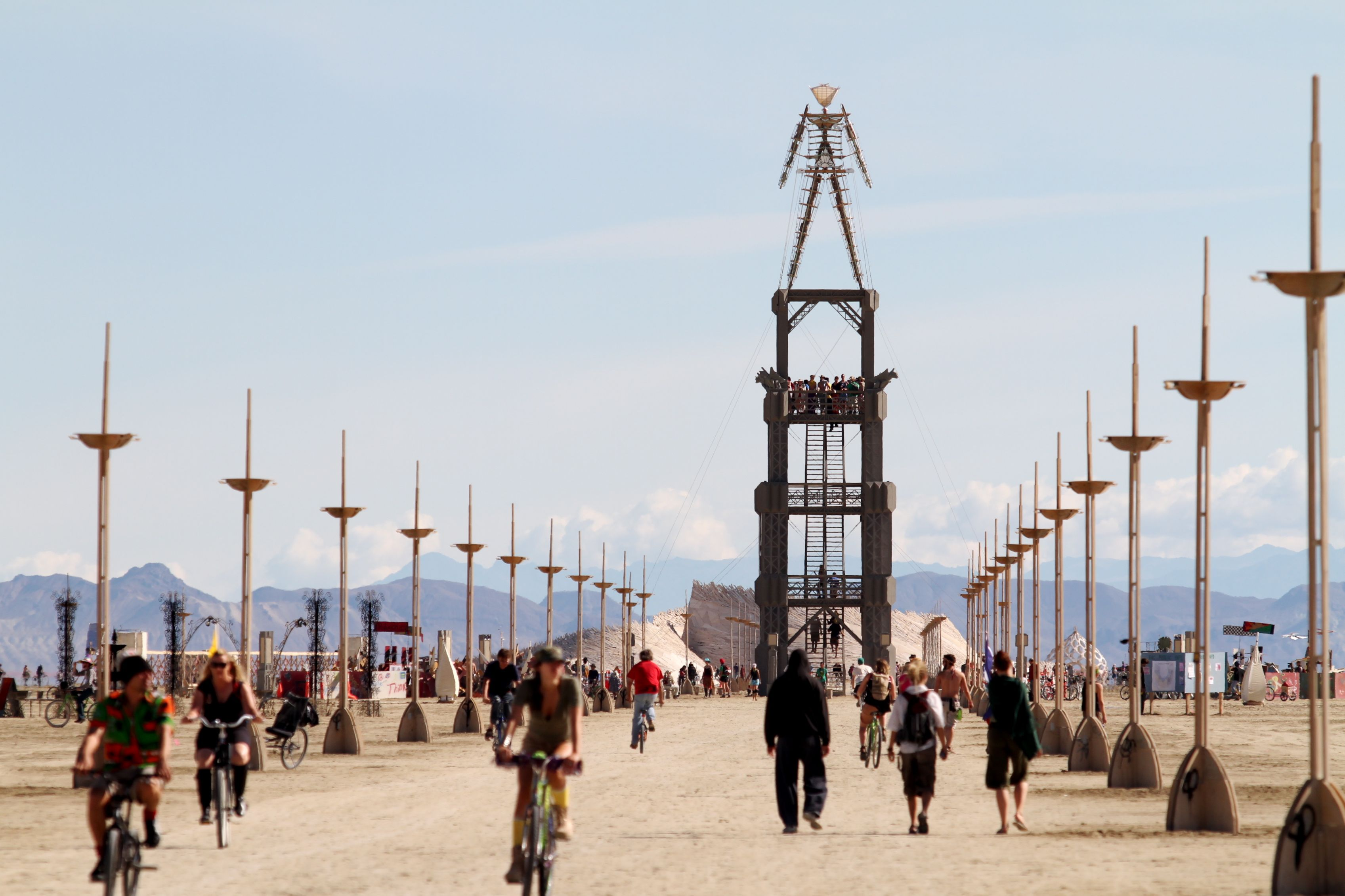 The Man and participants on Promenade. Photo taken at Burning Man 2010, Nevada, United States.